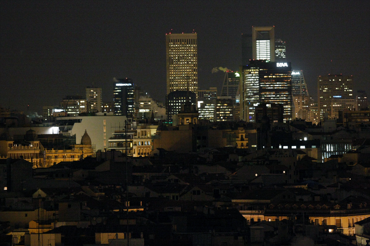 Skyscrapers in Madrid (Spain). Image taken from Círculo de Bellas Artes' flat roof.